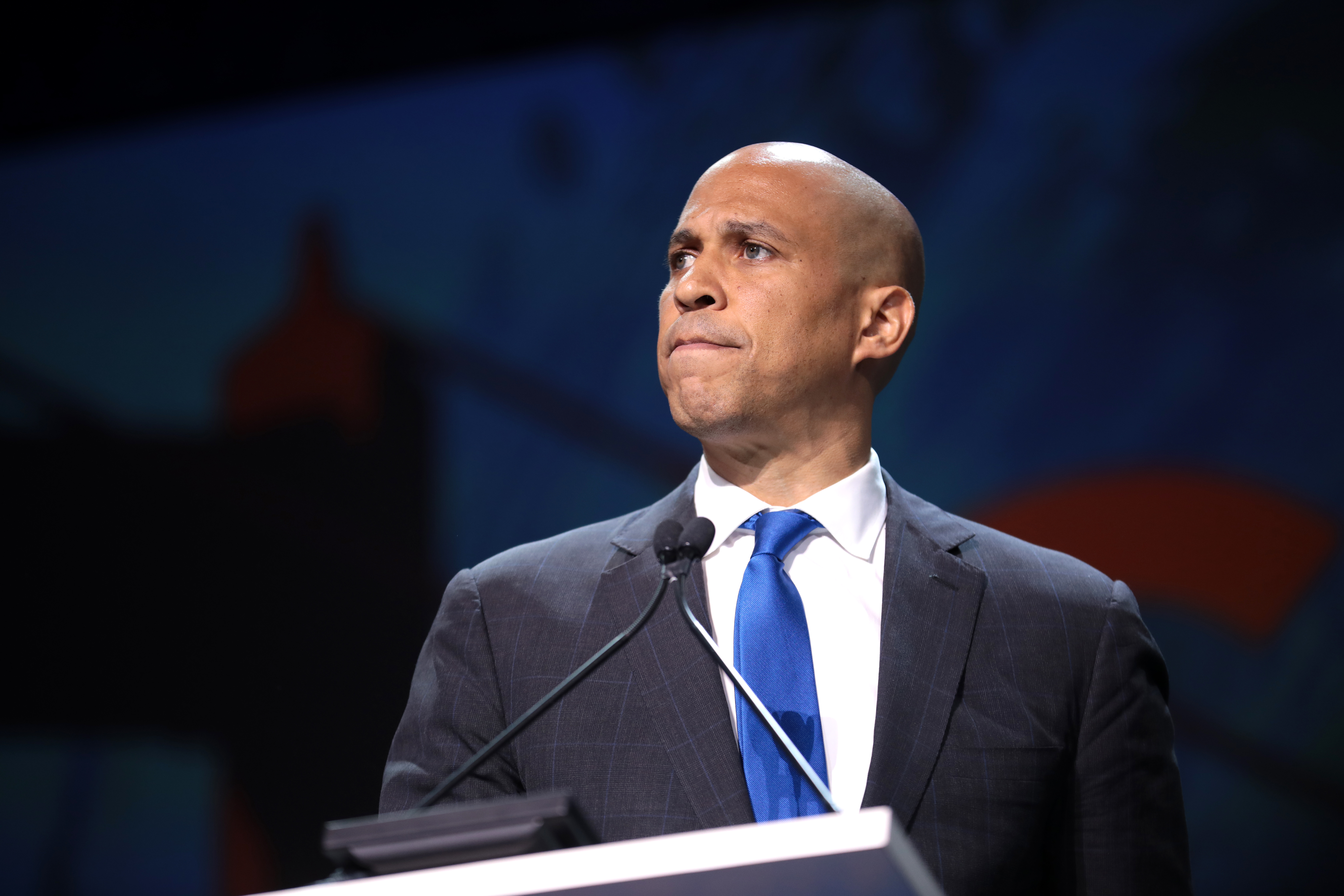 U.S. Senator Cory Booker speaking with attendees at the 2019 California Democratic Party State Convention at the George R. Moscone Convention Center in San Francisco, California.